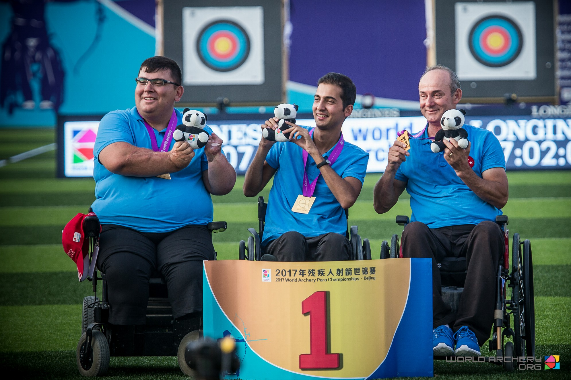 Beijing 2017 Para-archery World Championship Medal Ceremony of Turkey